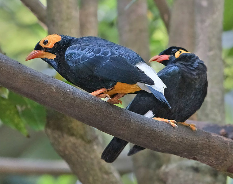 Yellow-faced Myna (Mino dumontii) on the left, Hill Myna (Gracula religiosa) on the right